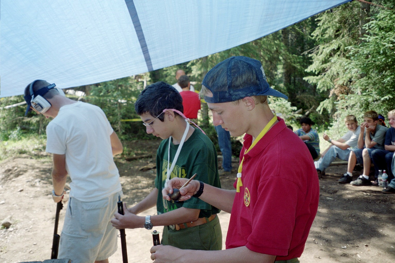 Varsity Scouts preparing black powder rifles as part of a Frontiersman activity.